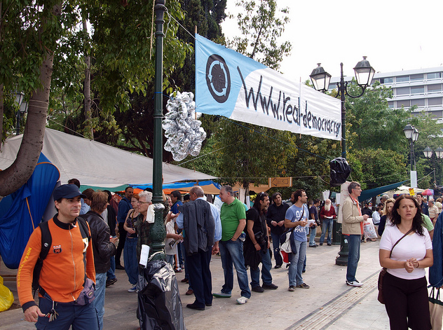 The Real Democracy Now! information tent at Syntagma Square, Athens, during the May 2011 Greek protets.